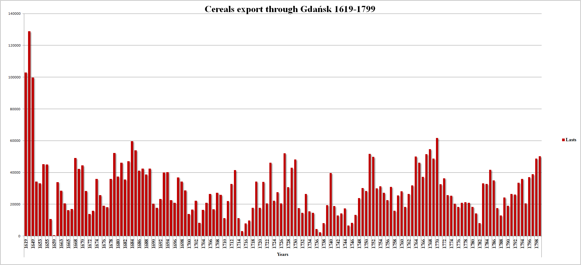 Cereals export through Gdańsk 1619-1799